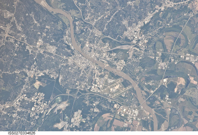 Astonaut photography of Little Rock, Arkansas from the International Space Center (ISS) during expedition 27 on May 17,2011